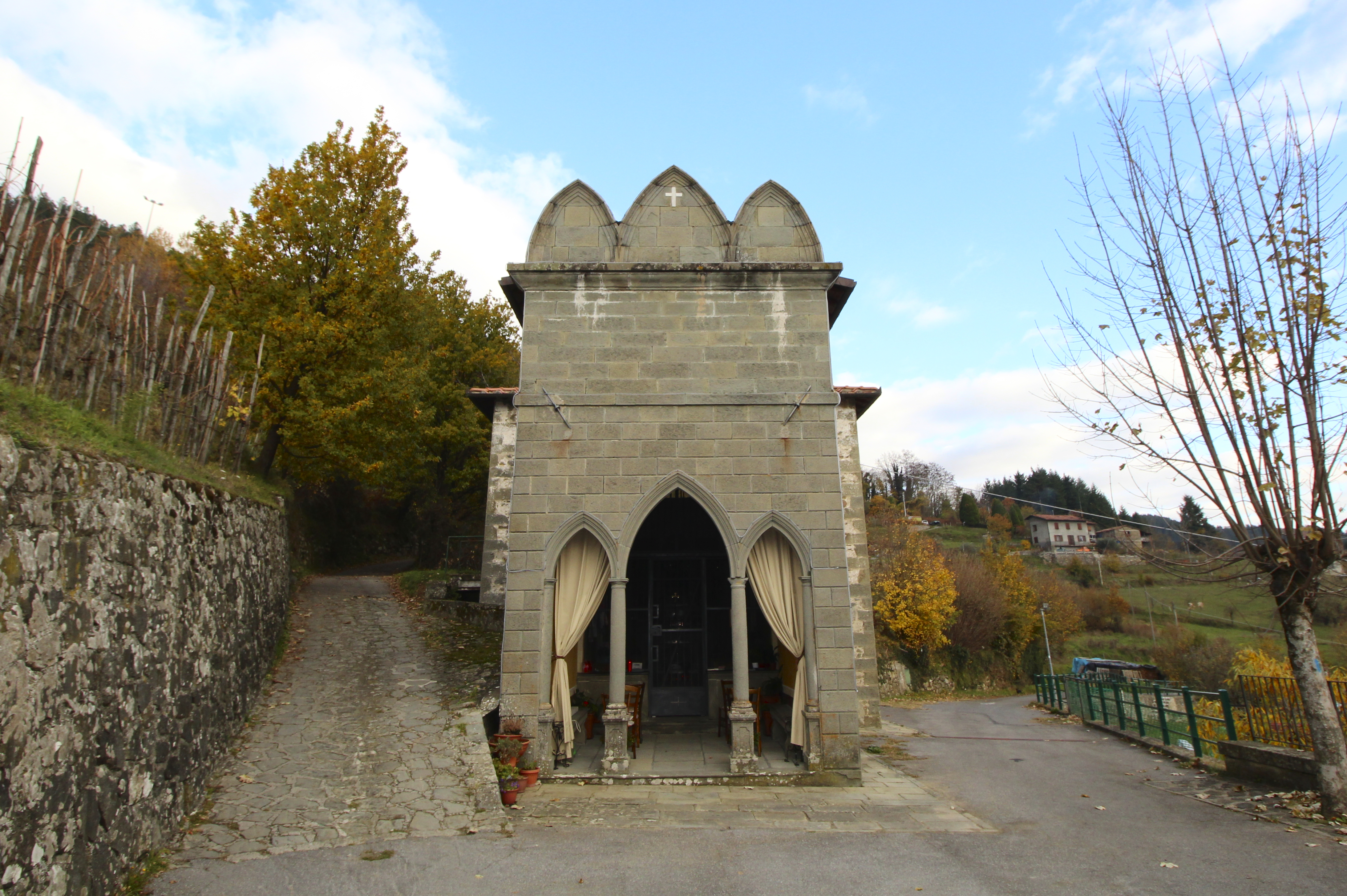 Church/Oratory Santissimo Crocifisso, Sillicagnana, hamlet of San Romano in Garfagnana, Province of Lucca, Tuscany, Italy